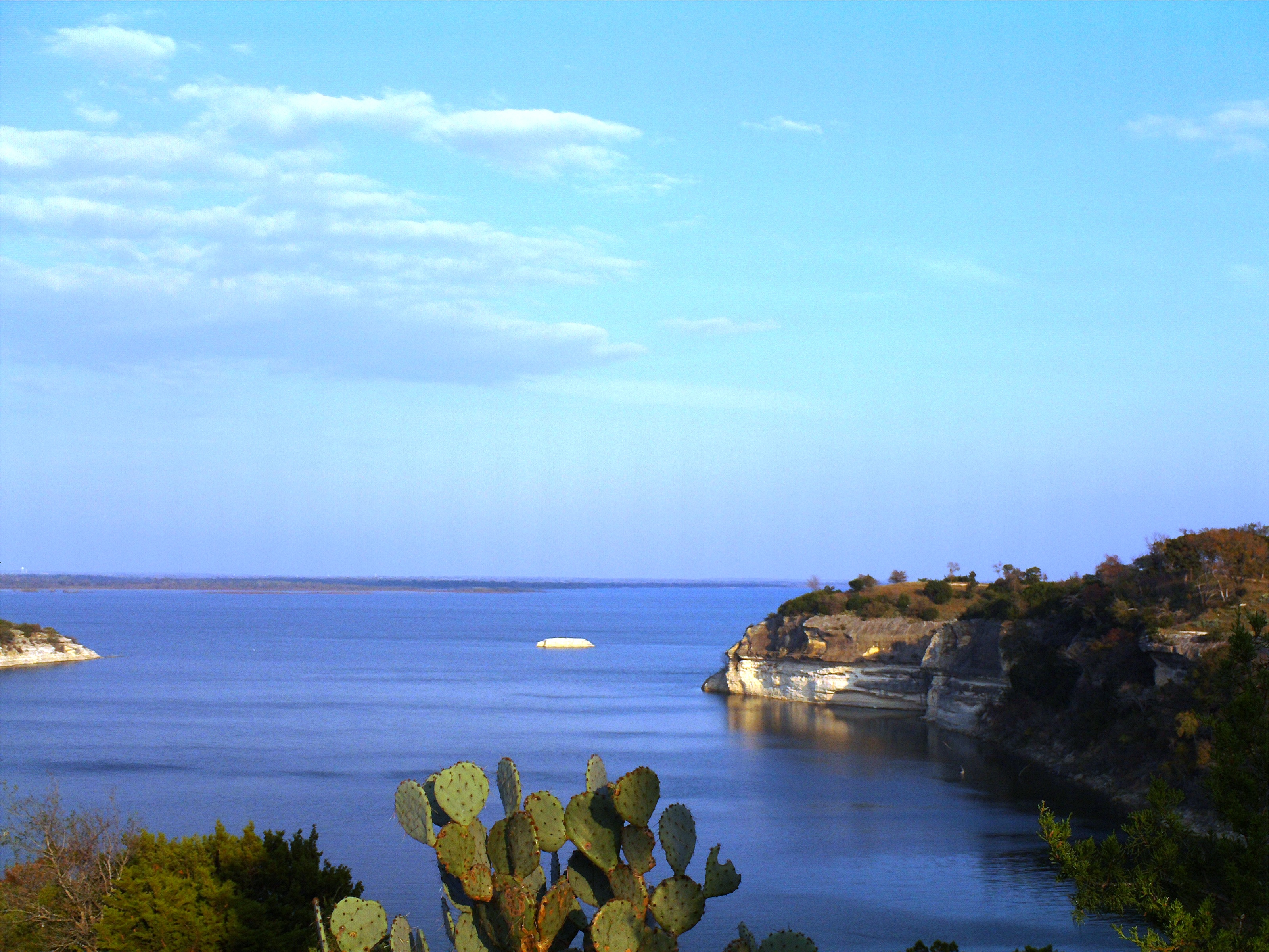 View of Lake Whitney showing Rock Island from Lake Whitney Ranch near caboose. Lake is 2 feet below normal level. Lake Whitney Ranch north property is on the right bank.